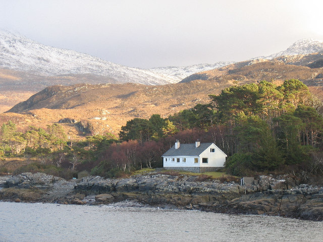 A holiday home on the shore of Loch Ailort.